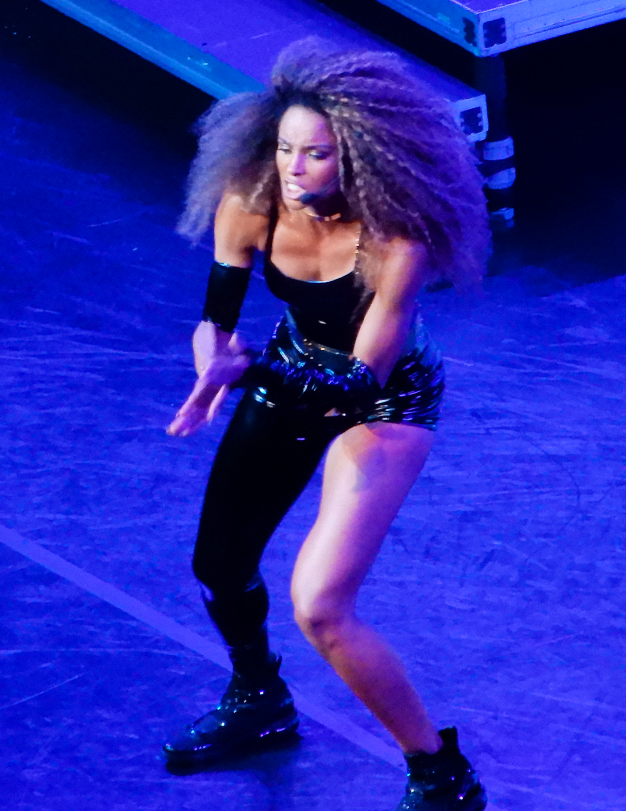 Ciara Opening for Bruno Mars at the Prudential Center in Newark